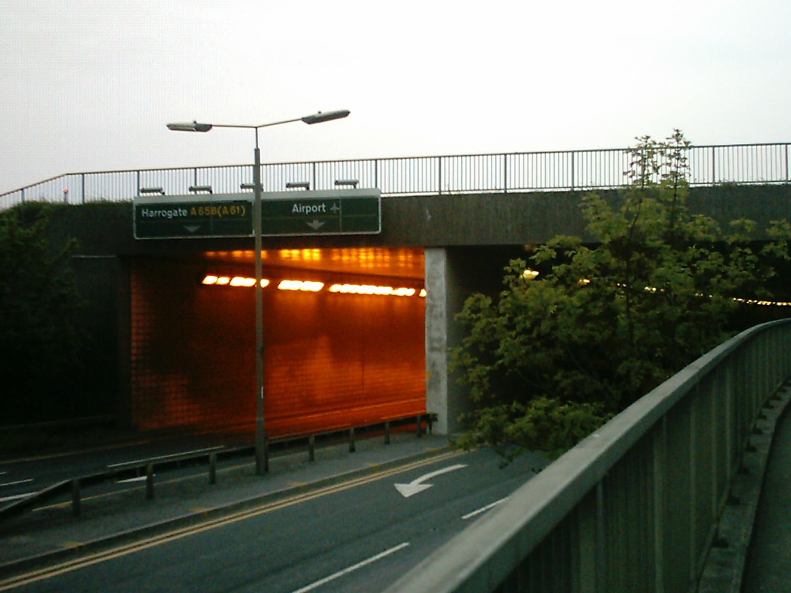 The flyover for the main runway extension at Leeds Bradford Airport